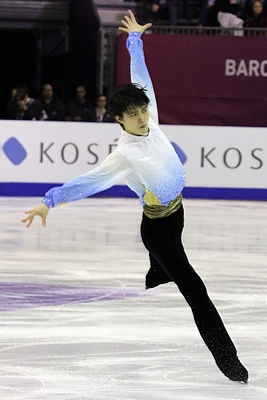 David W. Carmichael